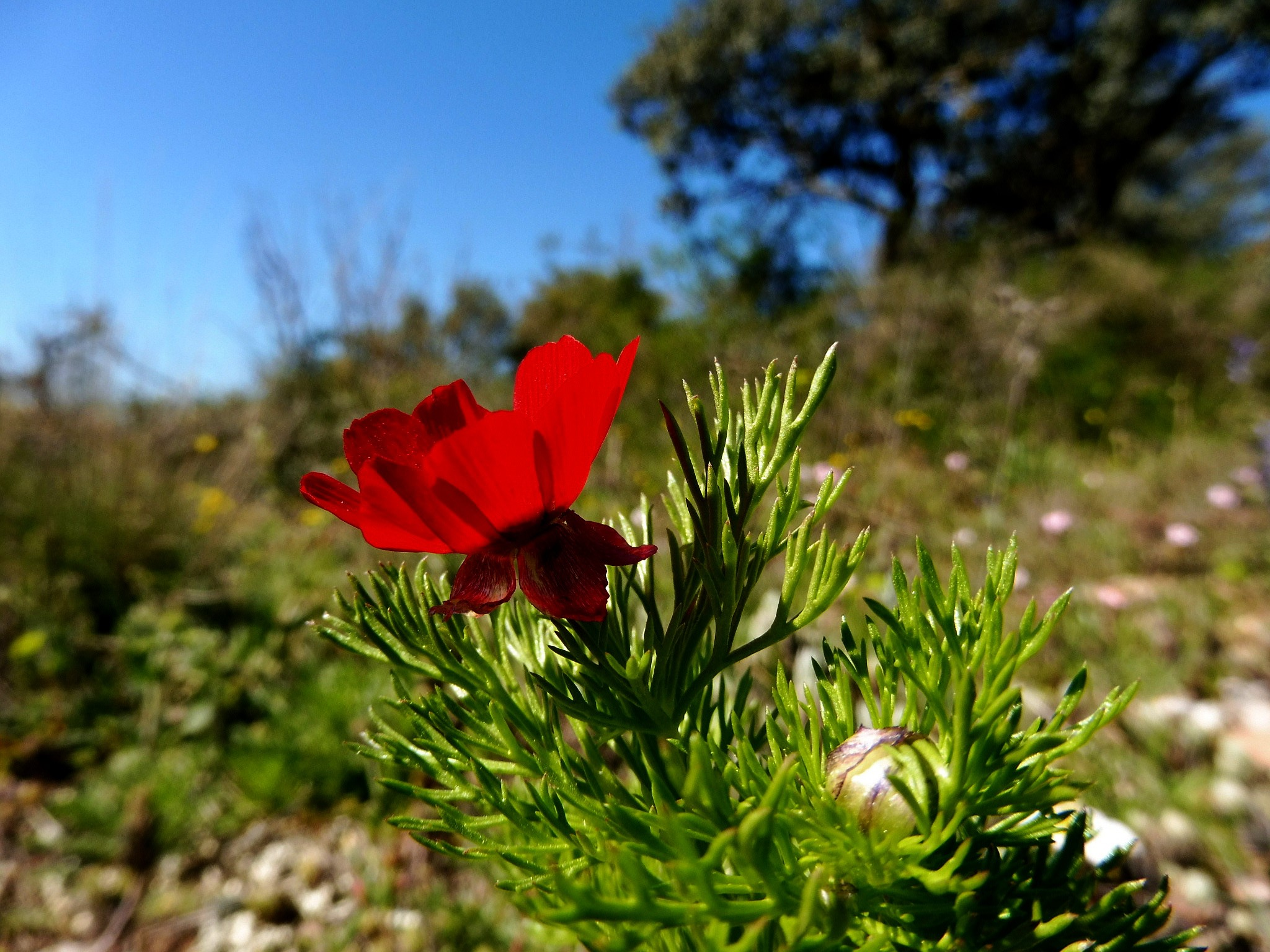 Adonis annua. In Argentera, Vilanova de Meià (Noguera-Catalunya). To 480 m. altitude